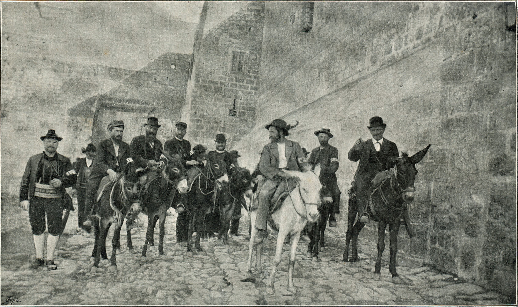 Pilgrims from Gröden in Jerusalem 1898